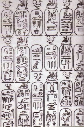 Kartusz made by Champollion